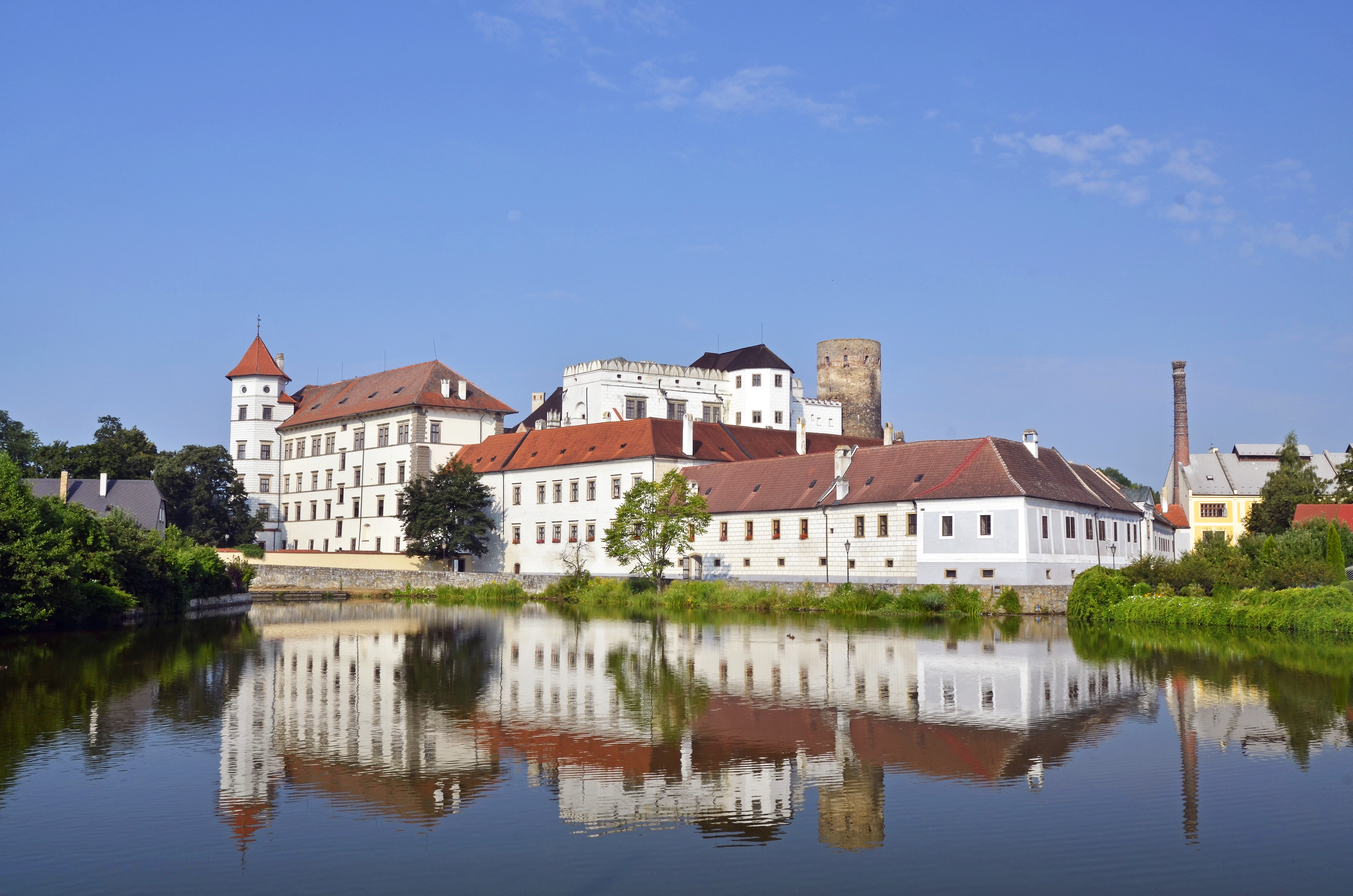 Jindřichův Hradec (CZ) - Castle of Jindřichův Hradec